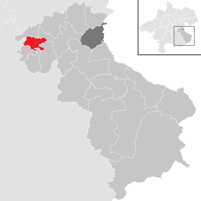 district Steyr-Land